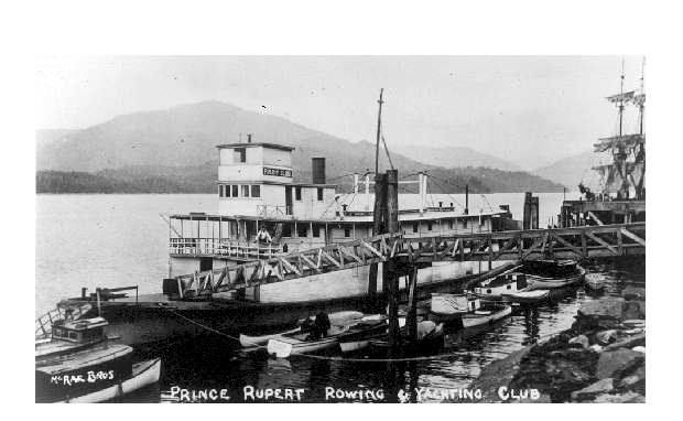 Photographer McCrae Brothers Photo taken 191? Source BC Archives # A-00424 [1]